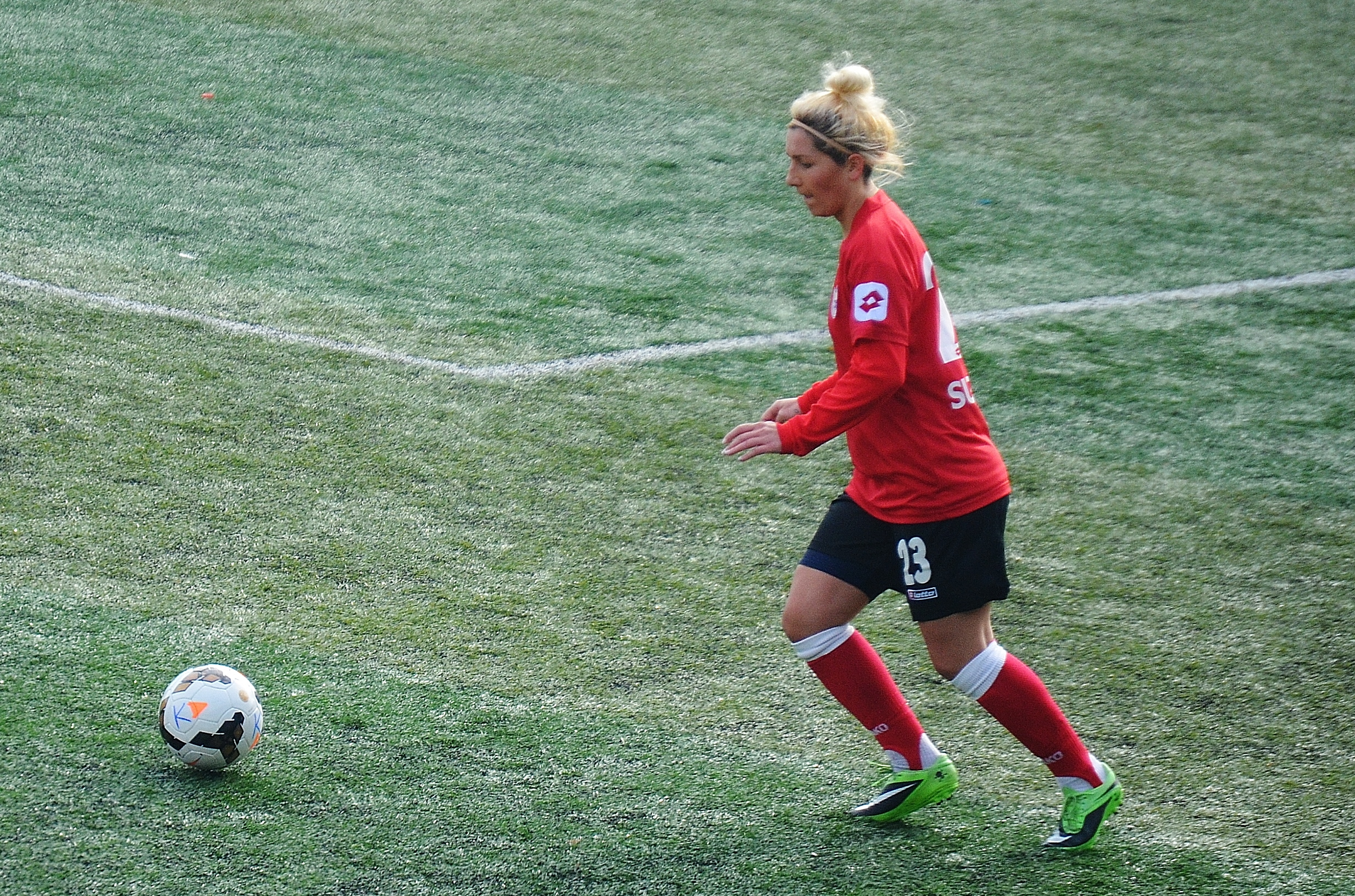 Nino Sutidze playing for Konak Belediyespor in the 2015-16 season against Kireçburnu Spor